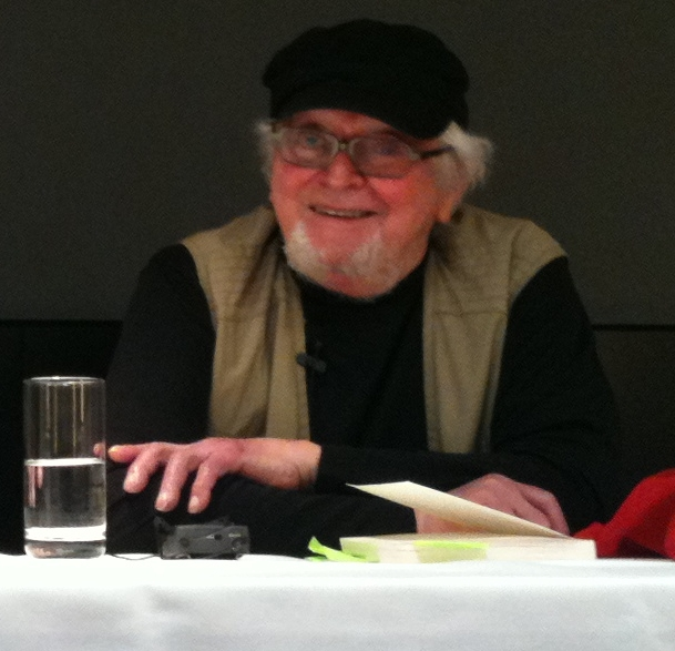 Author Russell Hoban taking part in a live event at the Guardian, London, UK, 22 November 2010.